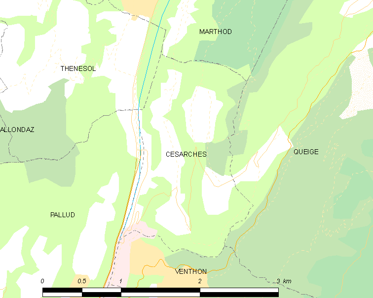 Map of French municipality